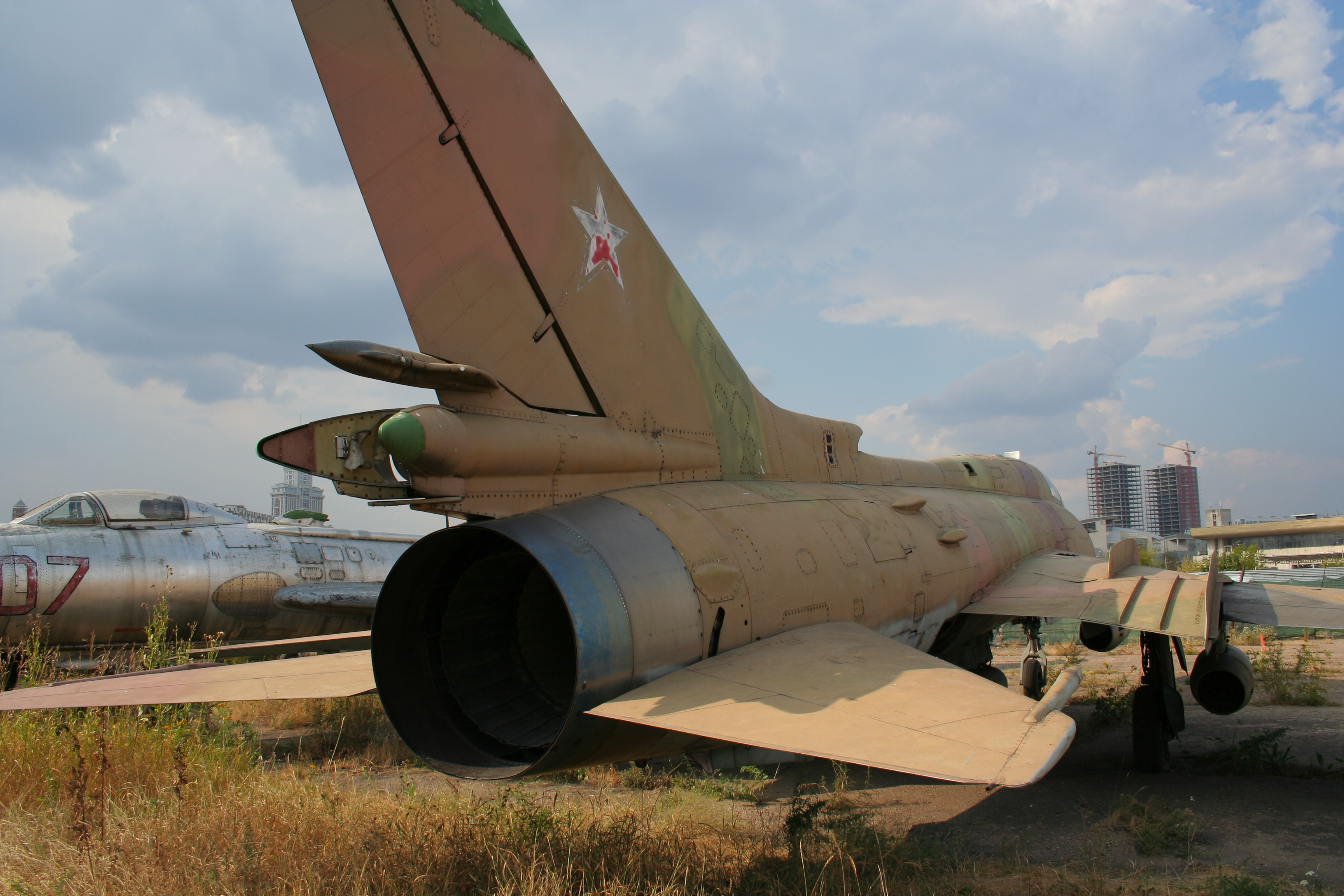 The Khodynka Field in Moscow. Views of the field in 2010.